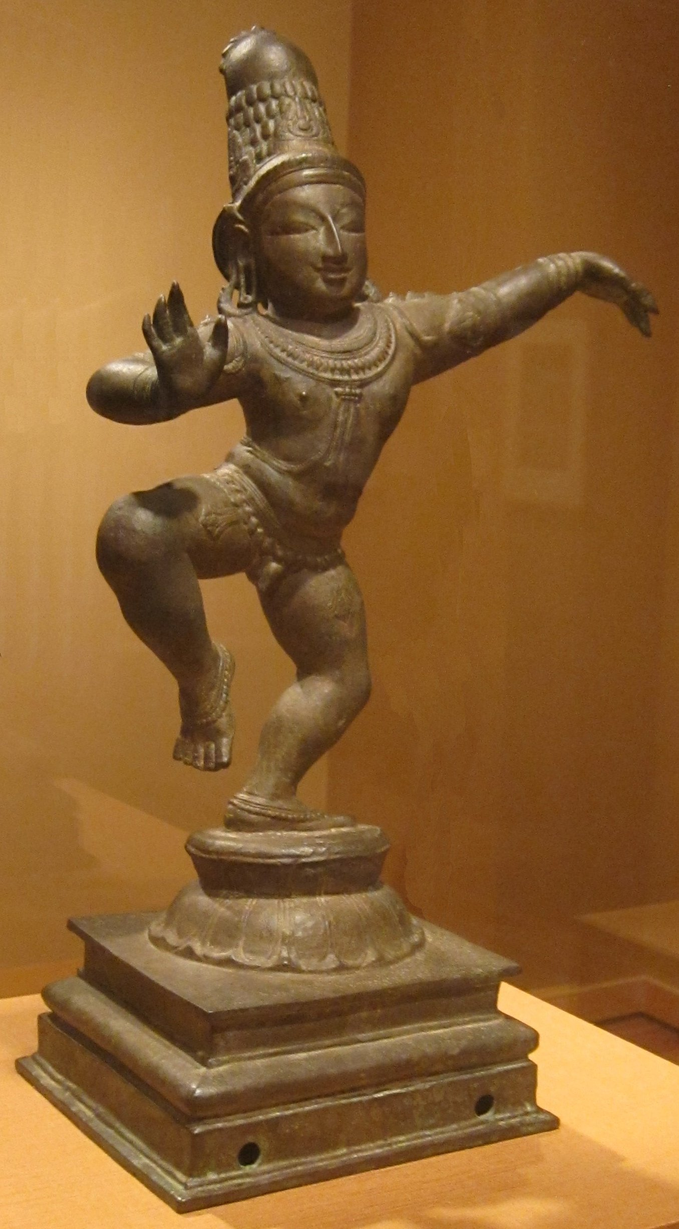 Dancing Kṛishṇa, India, Tanjore, Tamil Nadu, Chola dynasty, 14th century, bronze, Honolulu Academy of Arts